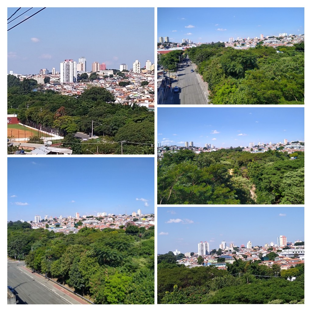 Parque Linear Tiquarira